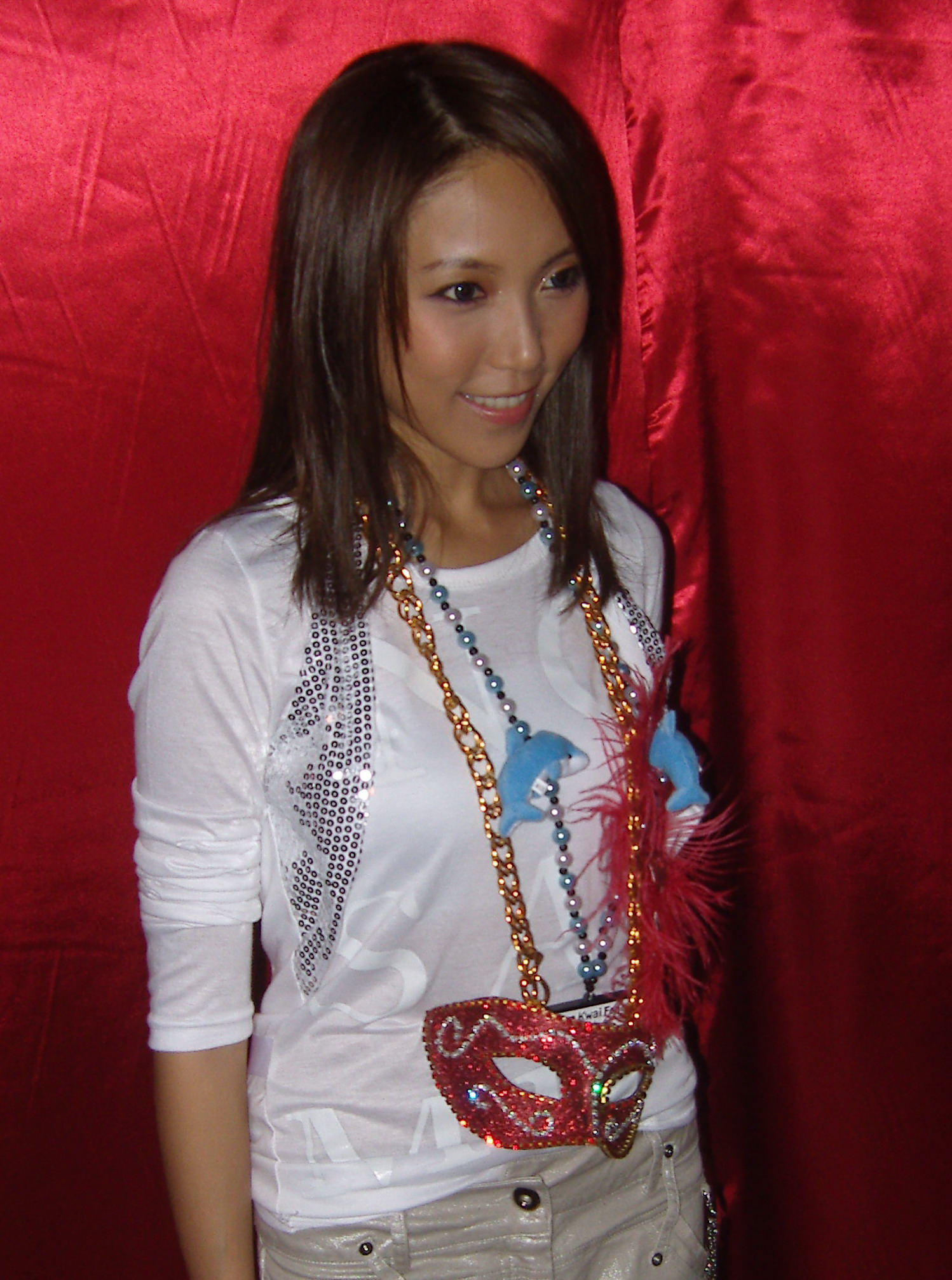 Lan Kwai Fong Carnival 2007 at Lan Kwai Fong, Central, Hong Kong.